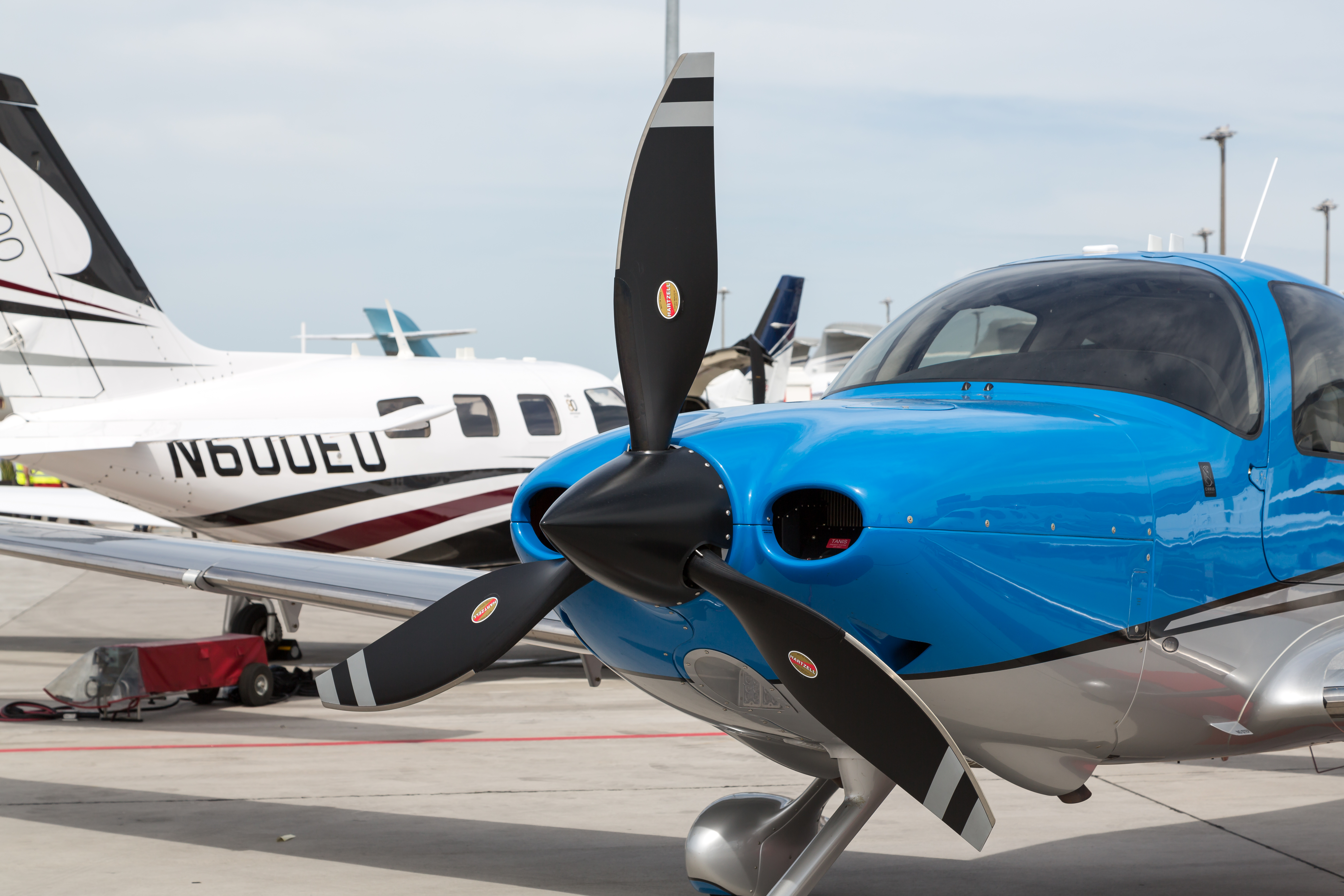 a Cirrus SR22T with a Hartzell Propeller on static display preview, EBACE 2018